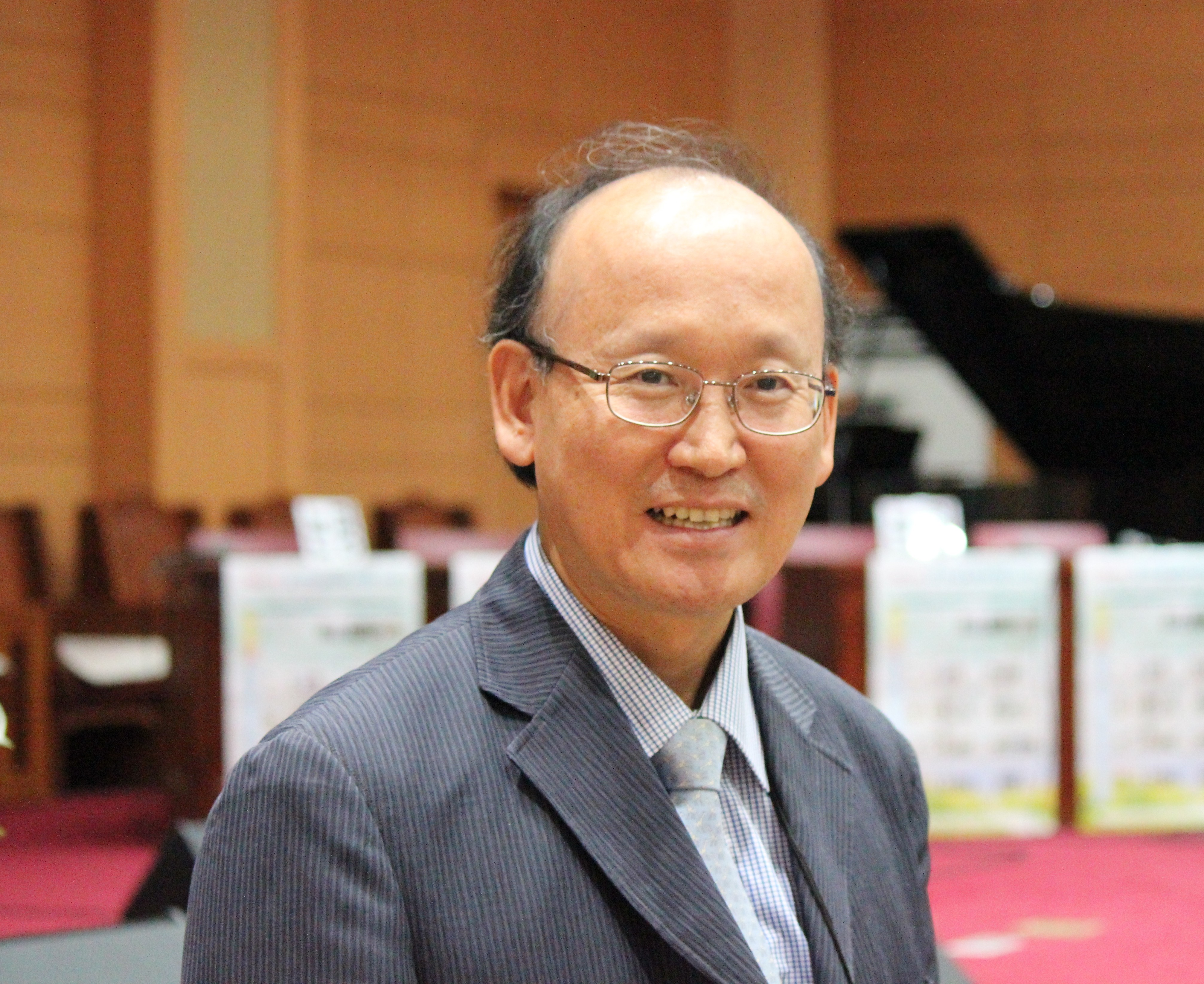 Prof. Ky-Chun So (Hanyoung Theological University, Seoul)